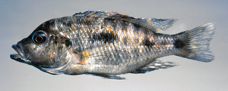 An adult individual (and a paratype) of Otopharynx brooksi Oliver, 1989, freshly collected from off Thumbi Island West, Lake Malawi, Malawi. Photographed in a photographic tank.